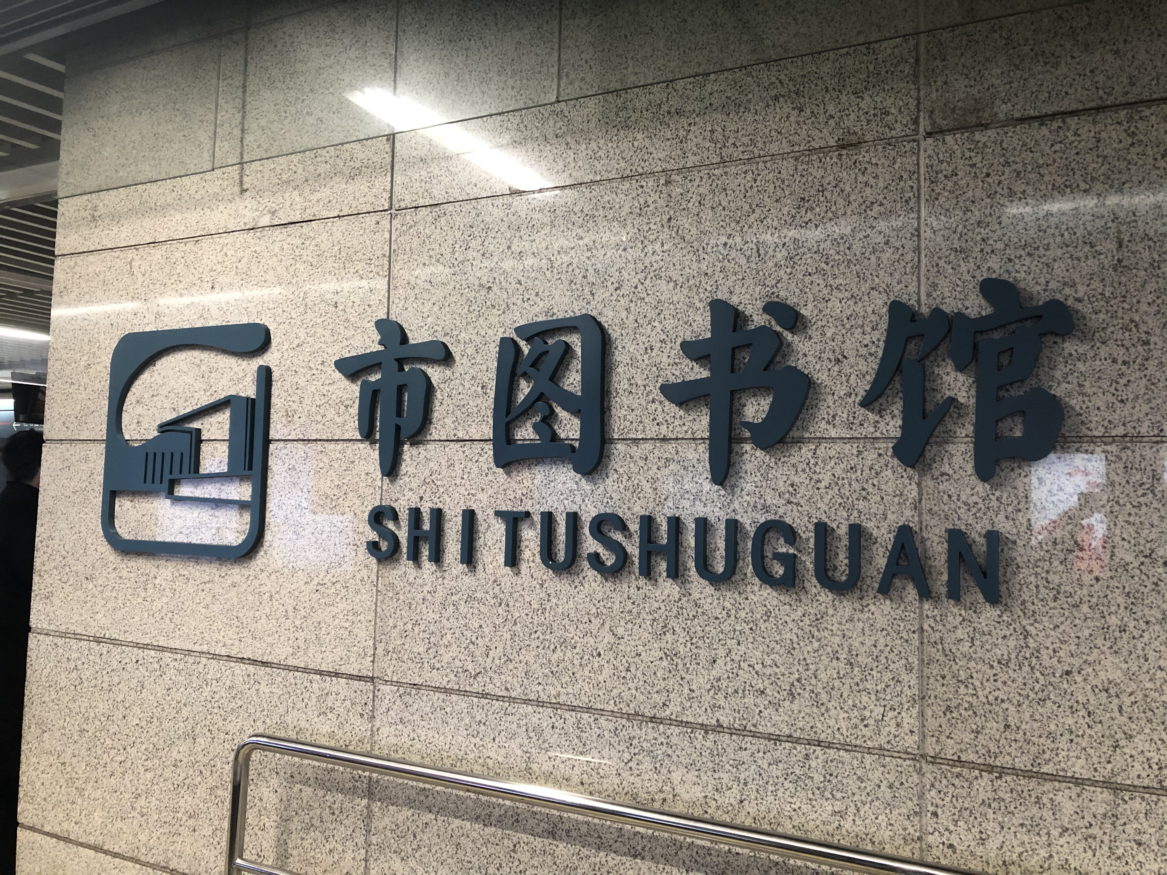 station name plate